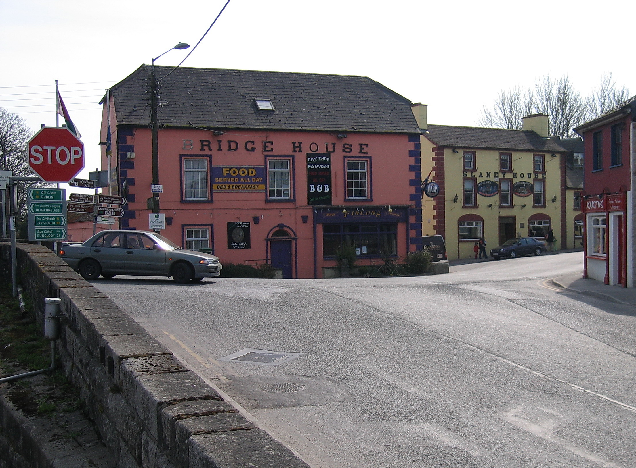 Tullow, County Carlow